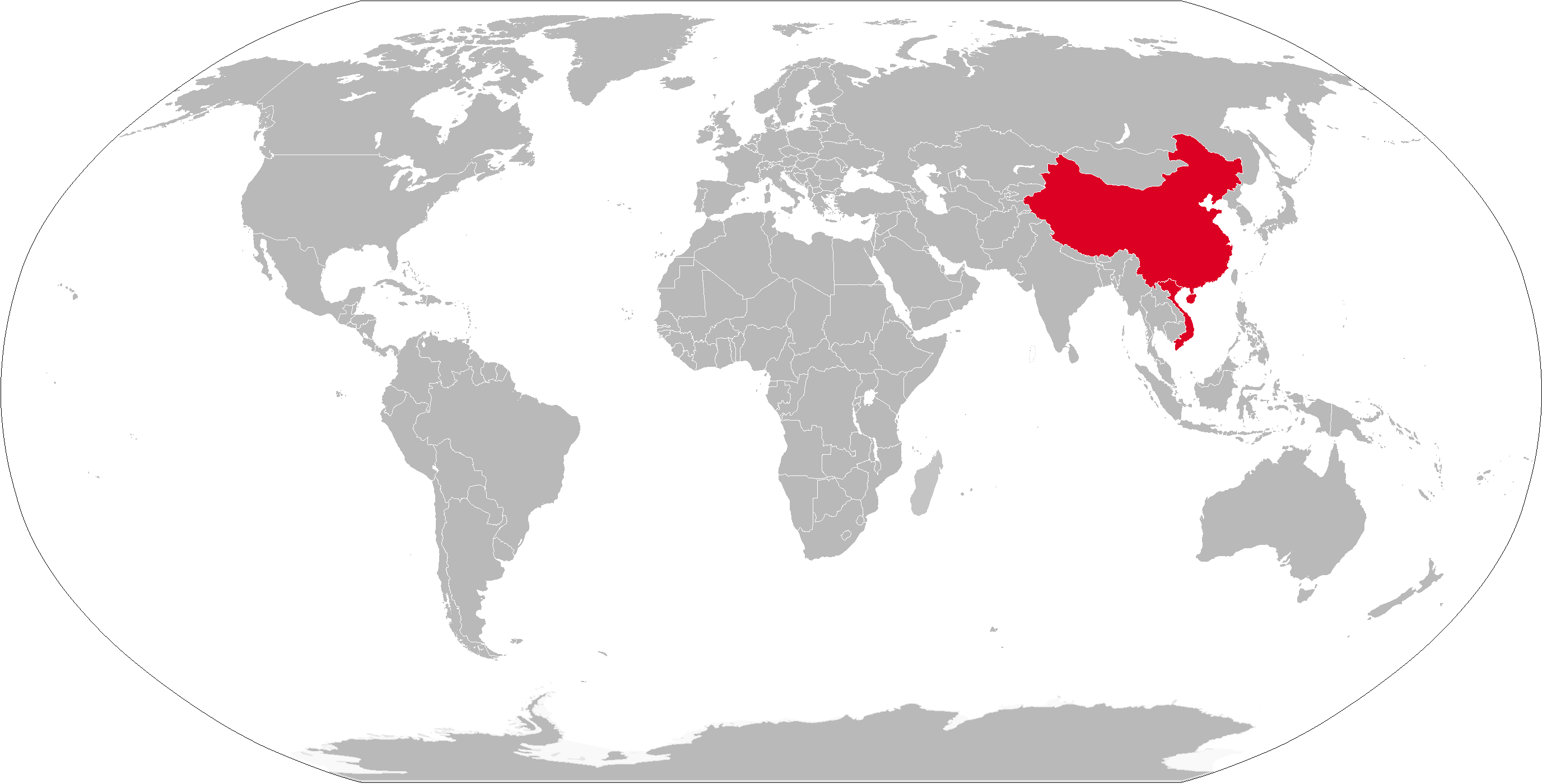 Map with former Type 63 operators in red